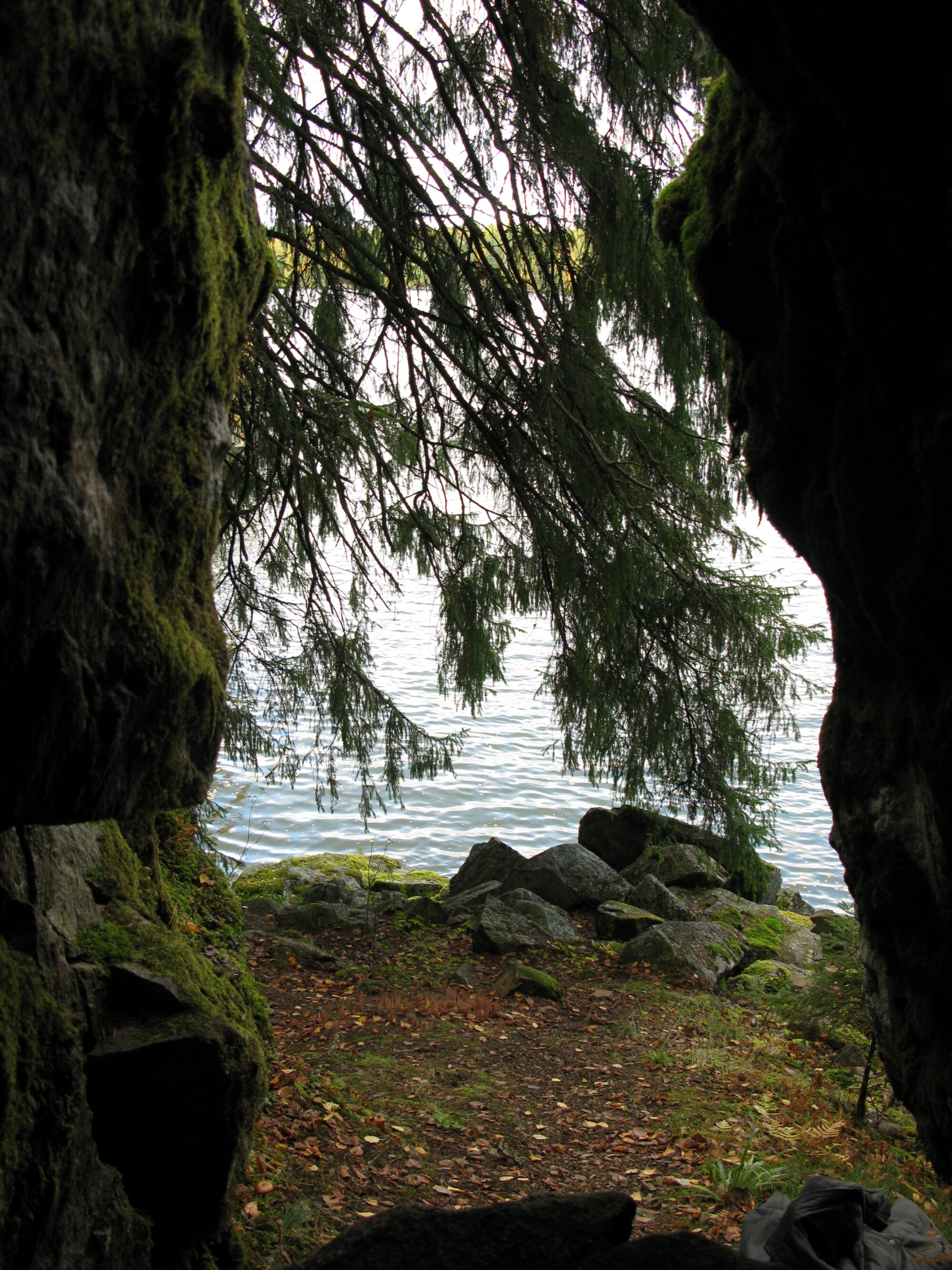 Pirunpesä ("Devil's nest") cave. Tuhnunvuori, Vesilahti, Finland, 2011.